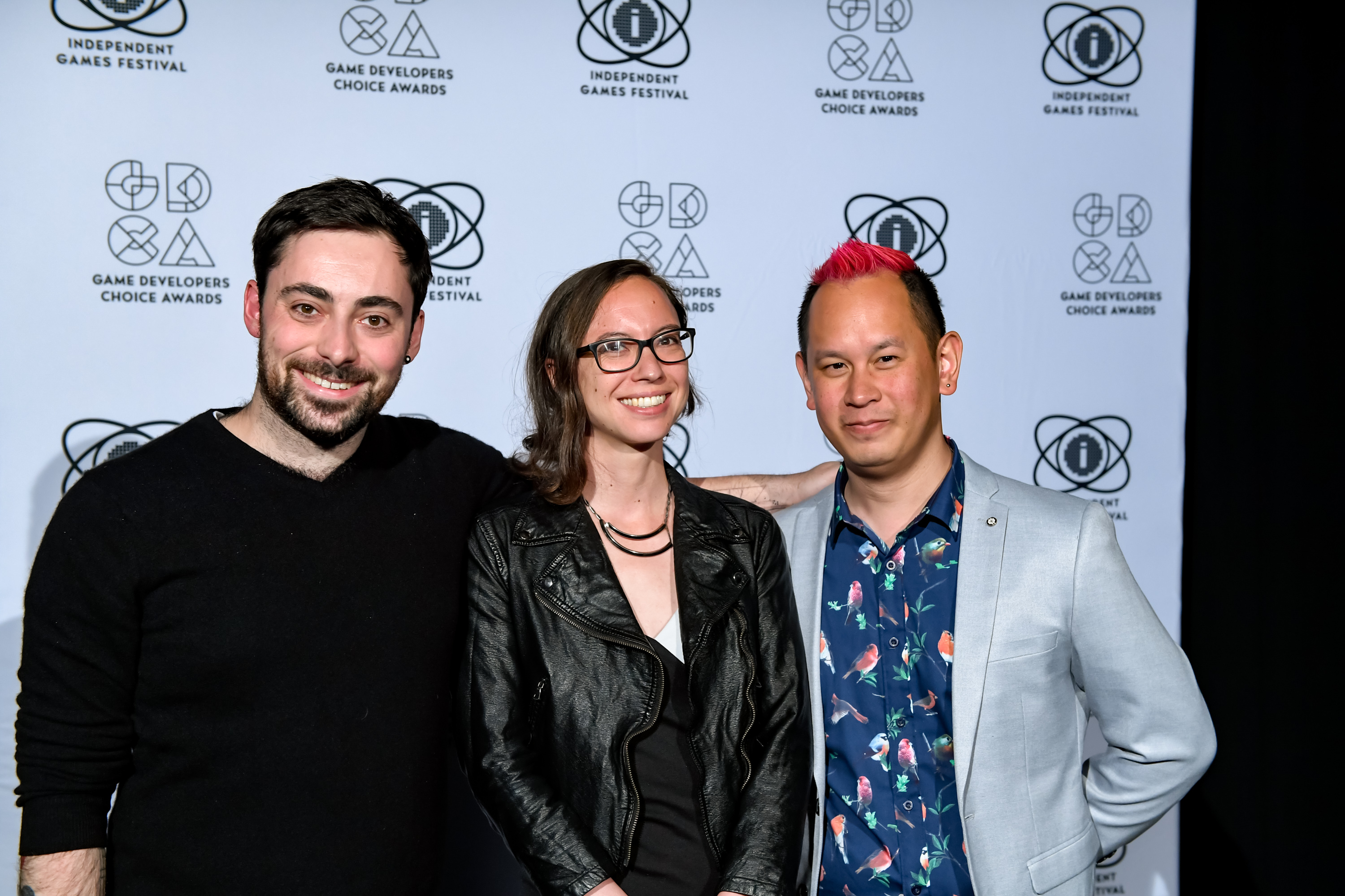 Mountains at the 19th annual Game Developers Choice Awards, held during the 2019 Game Developers Conference. Mountains won the Best Debut award, and Best Mobile Game award for Florence.